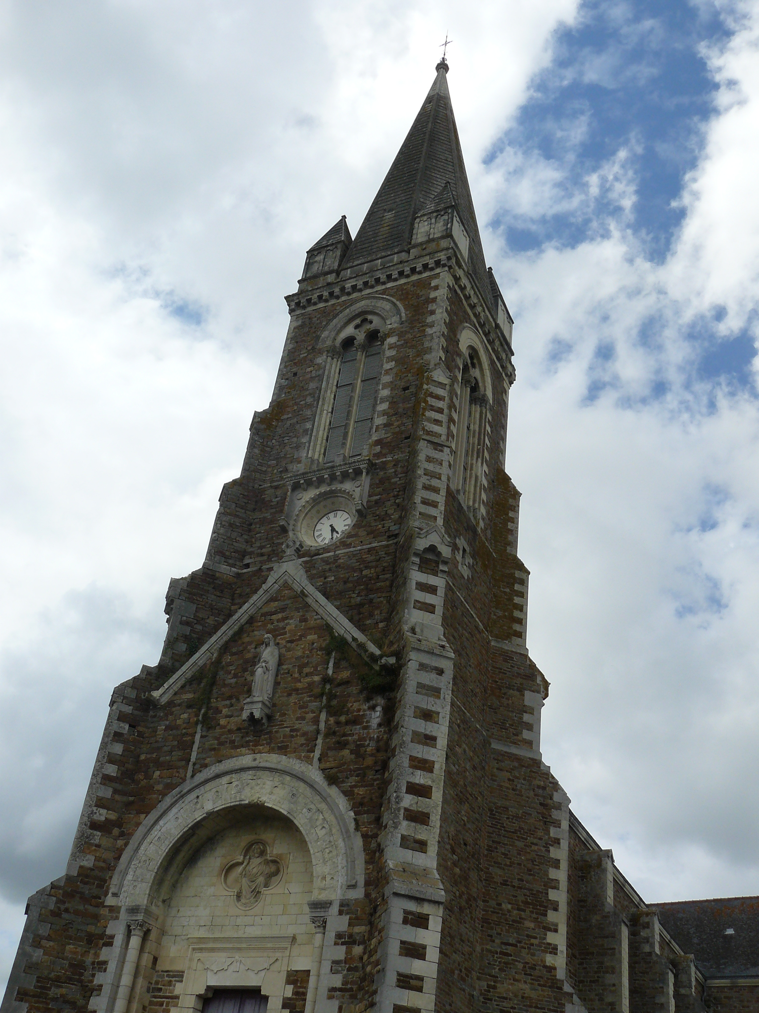 church of Vue (Loire-Atlantique, France).